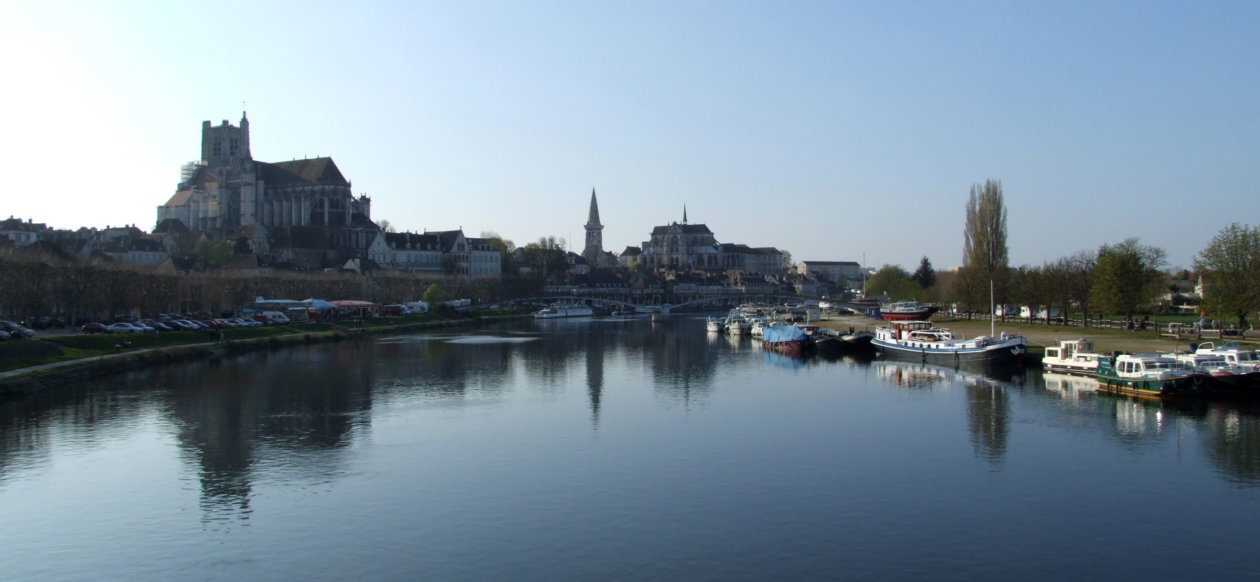 Auxerre, Burgundy, FRANCE